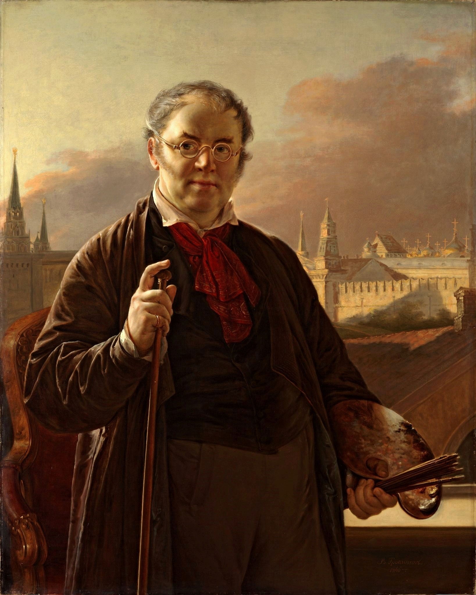 A similar portrait, painted in 1844, is housed in the Museum of Vasily Tropinin and Contemporary Moscow Artists. The unfinished version of the portrait (the author’s replica) is in the Radishchev Art Museum in Saratov.